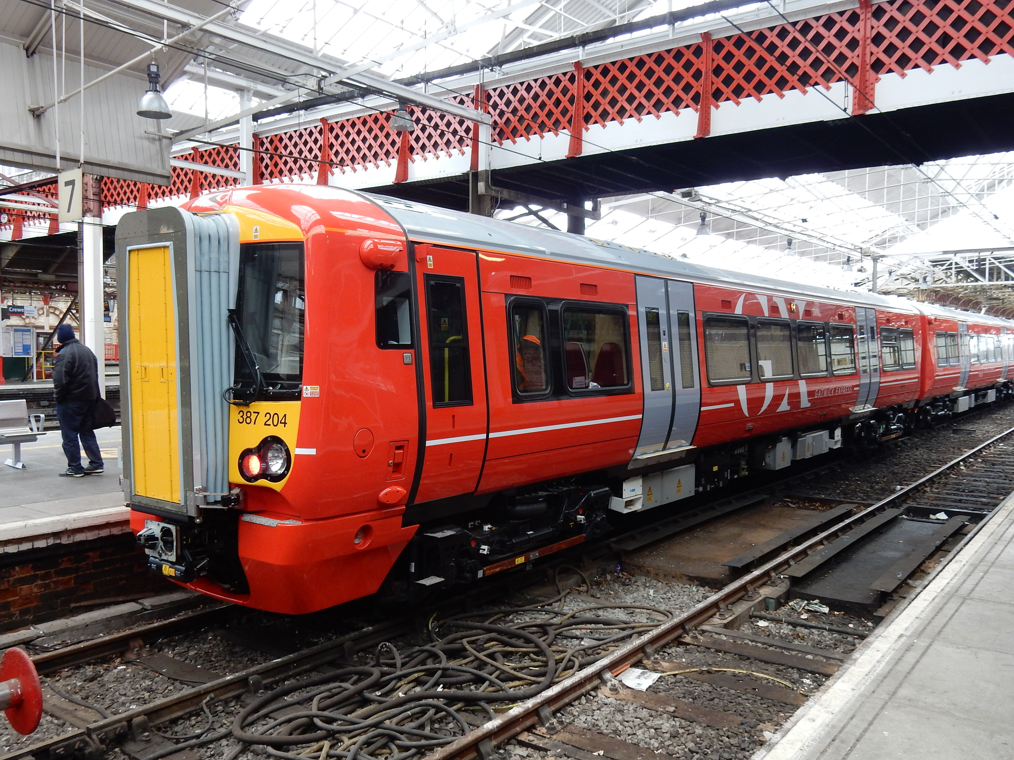 Class 387/2 unit 387204 at Crewe platform 7 in Gatwick Express livery